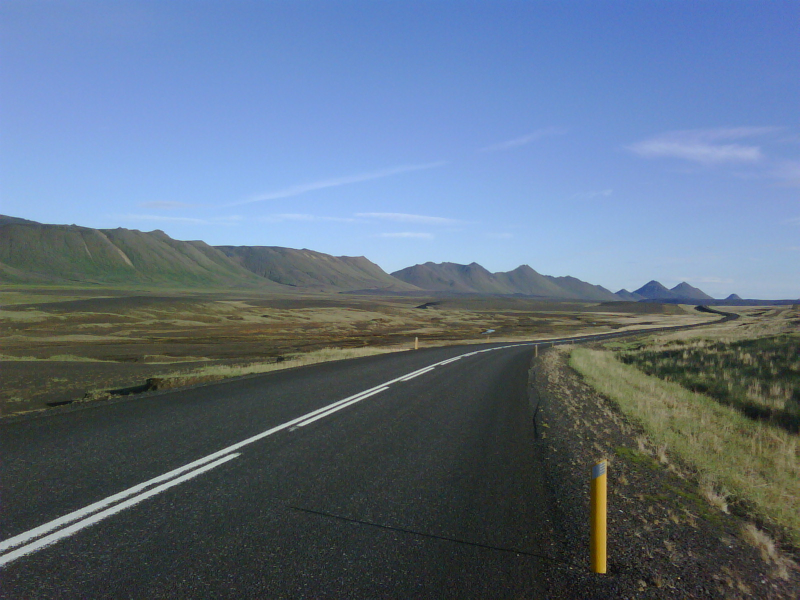 Road 1